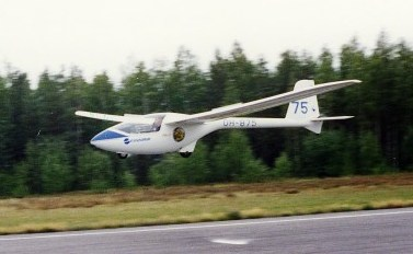 Sailplane PW-5 landing on Nummela airfield